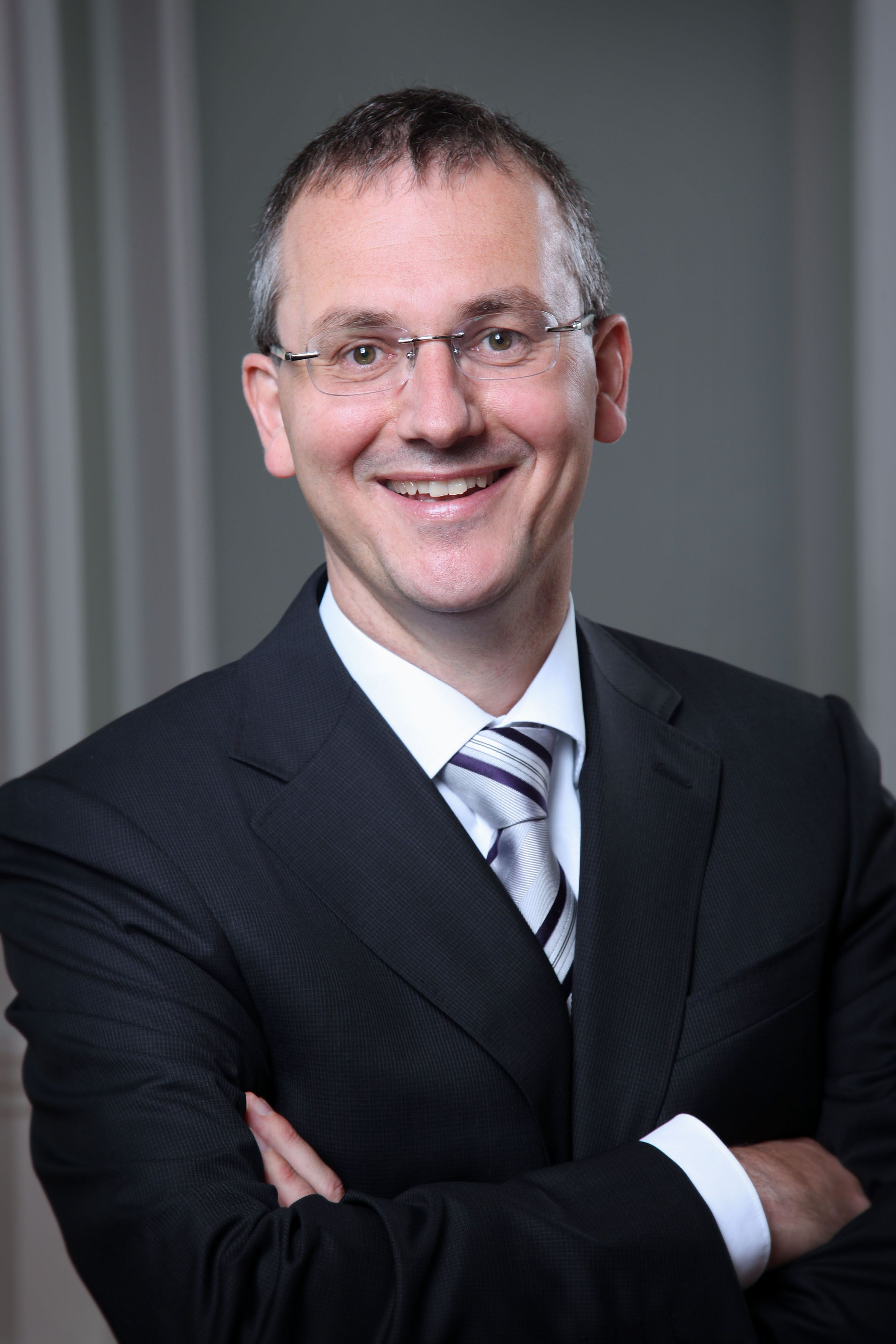 Hugo Quaderer is a member of the government of the principality of Liechtenstein.